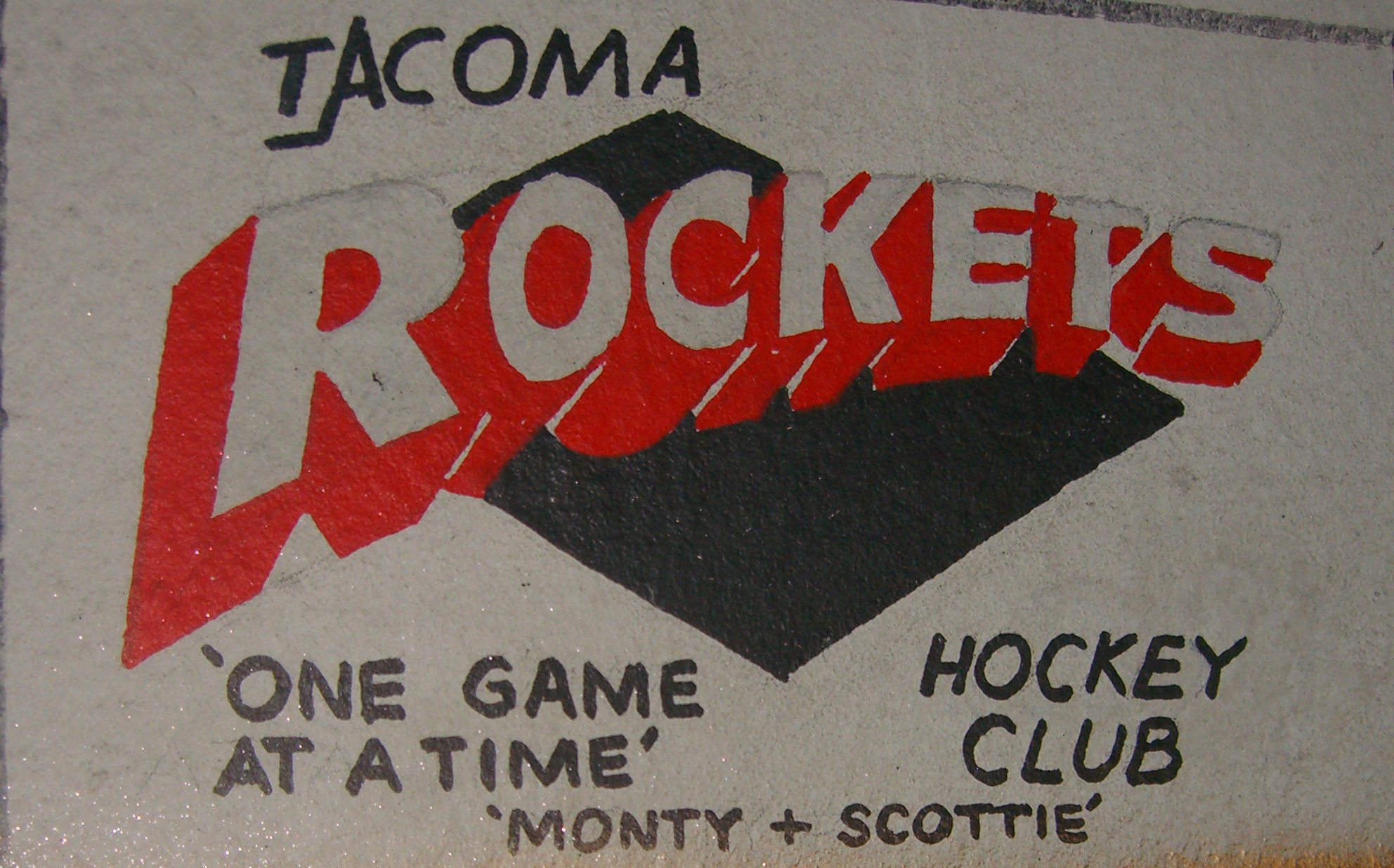 Urban artwork depicting the original Tacoma Rockets hockey club logo, in Olympia, WA.